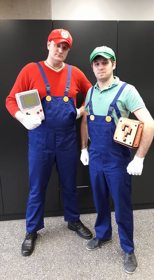 Cosplay of Mario and Luigi from video game series.